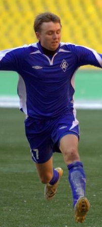 Anton Bober in action for FC Krylya Sovetov